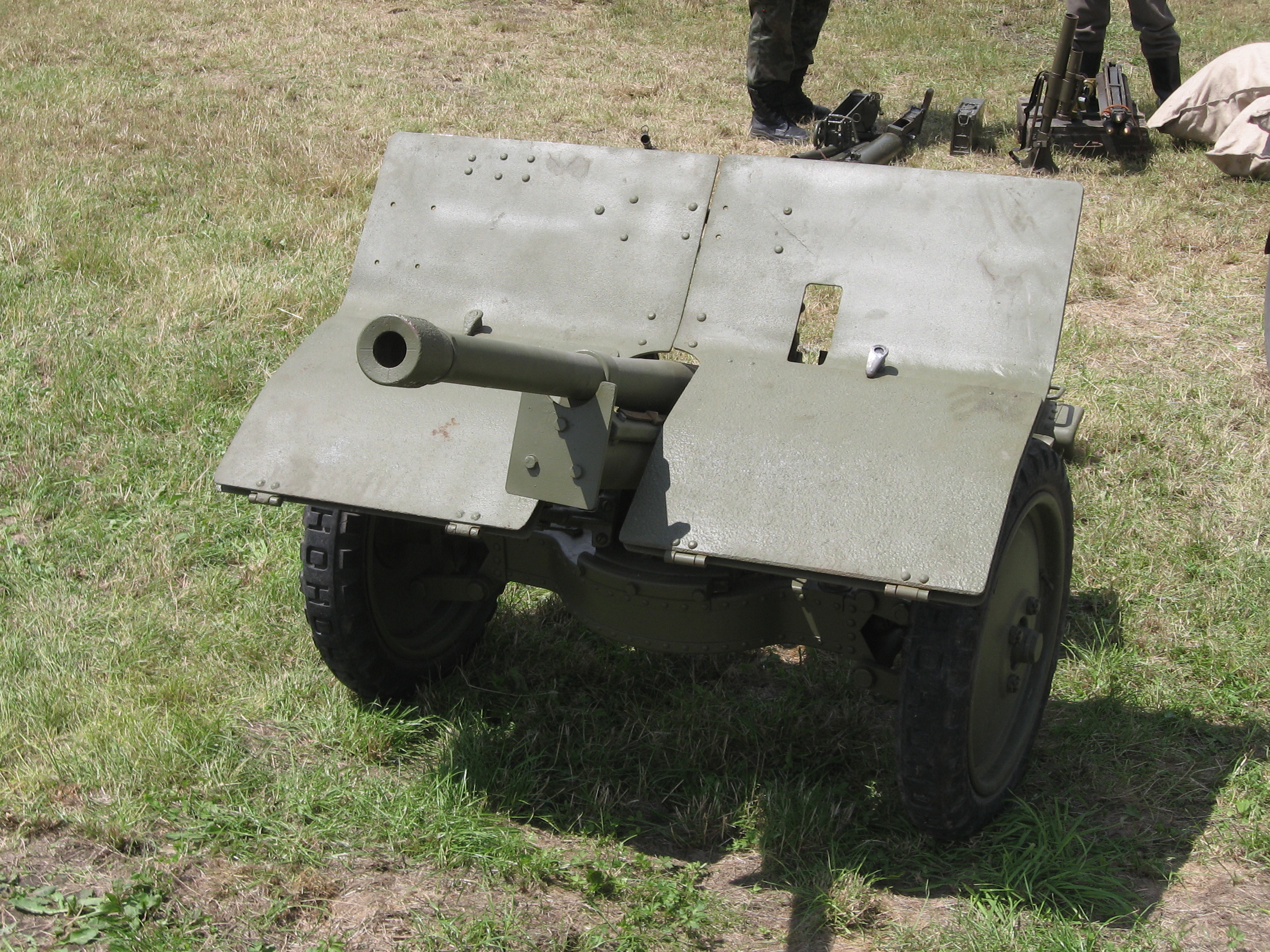 Bofors 37 mm anti-tank gun.